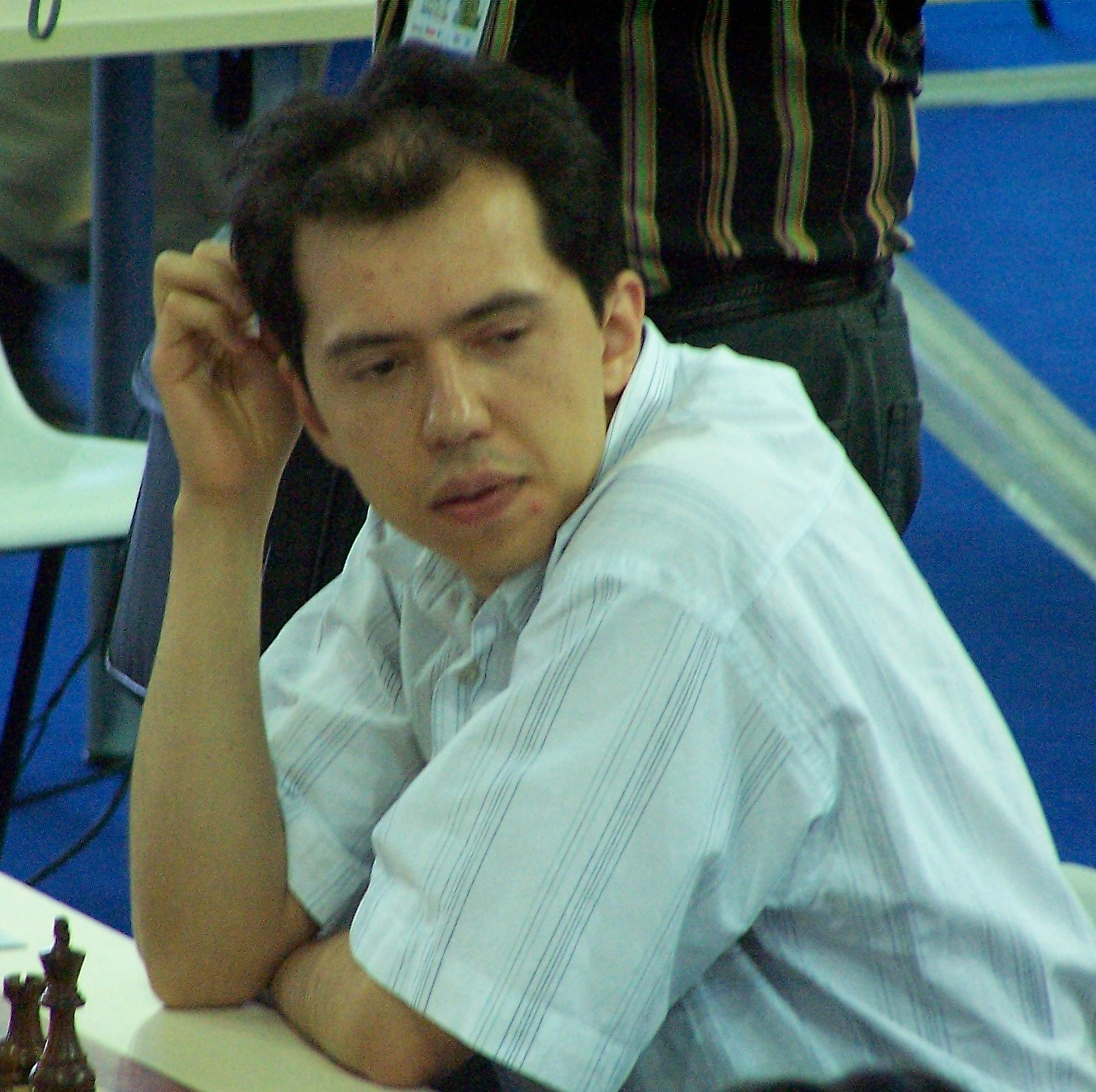 Kasimdhzanov foto olimpiadi scacchi torino 2006